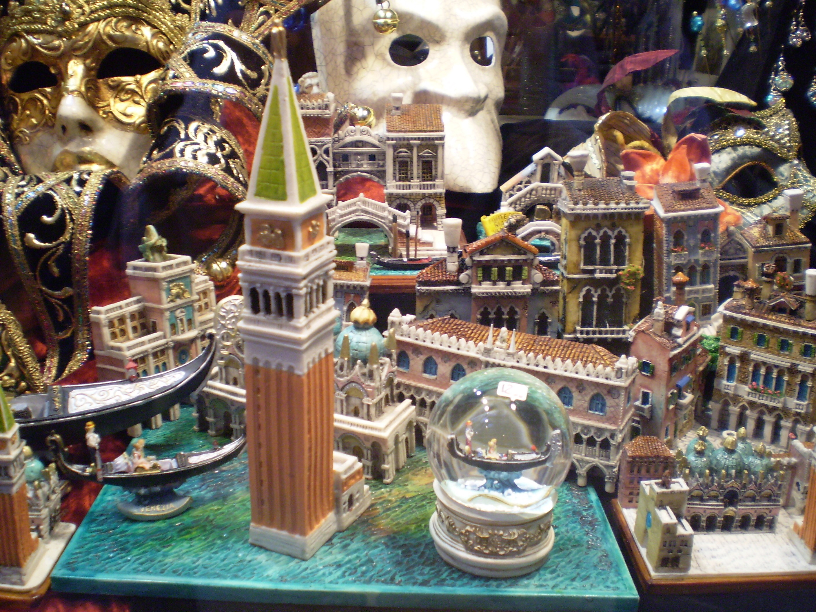 Souvenirs from Venice